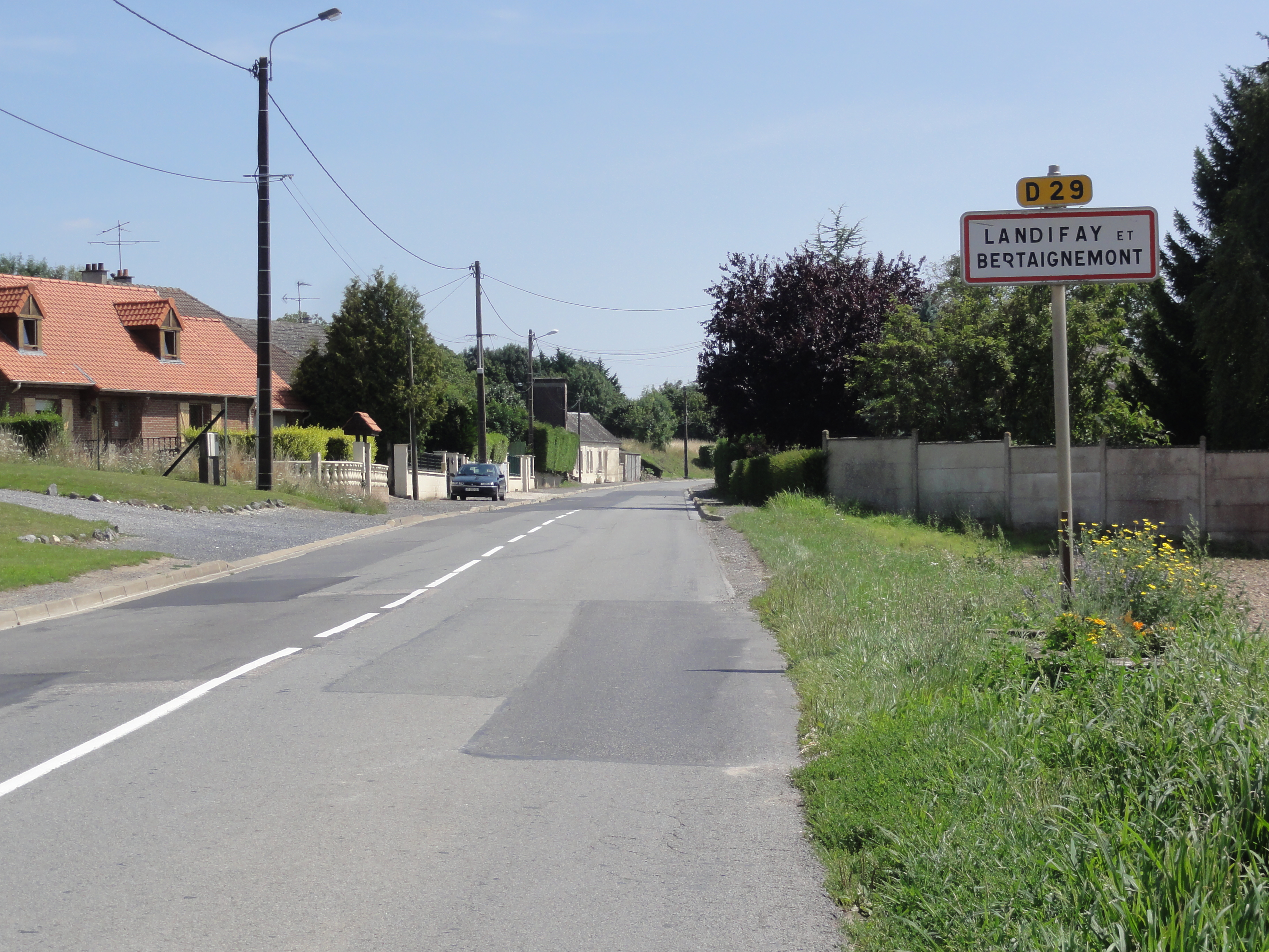 Landifay-et-Bertaignemont (Aisne) City limit sign